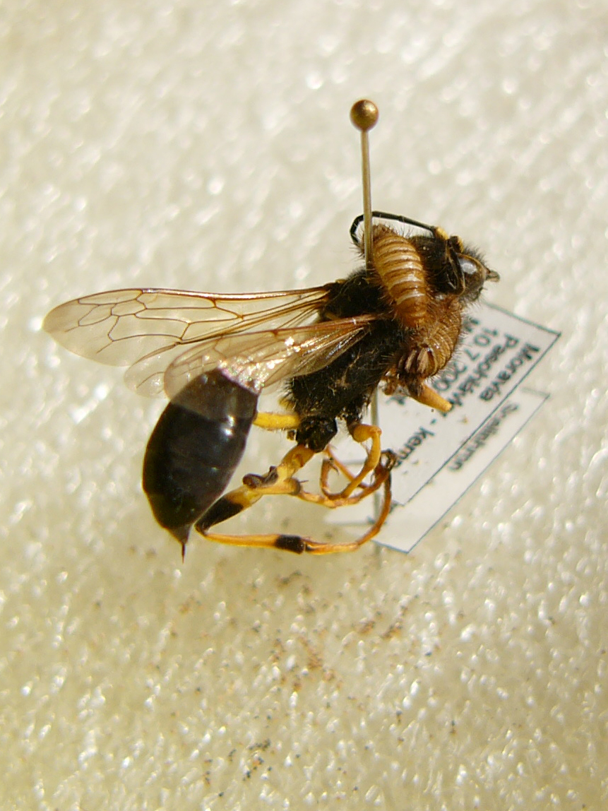 Larval form of Demestidae beetle Anthrenus verbasci or A. scrophulariae (probably ?, see also File:Anthrenus verbasci - larva side (aka).jpg) is damaging specimen of Sceliphron destillatorius in entomogical collection.